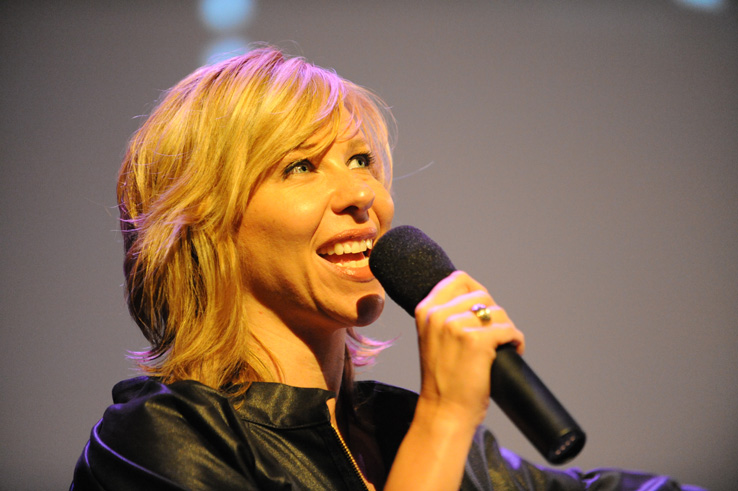 Claudia de Breij at the Dutch Film Festival 2008 (Utrecht, the Netherlands).